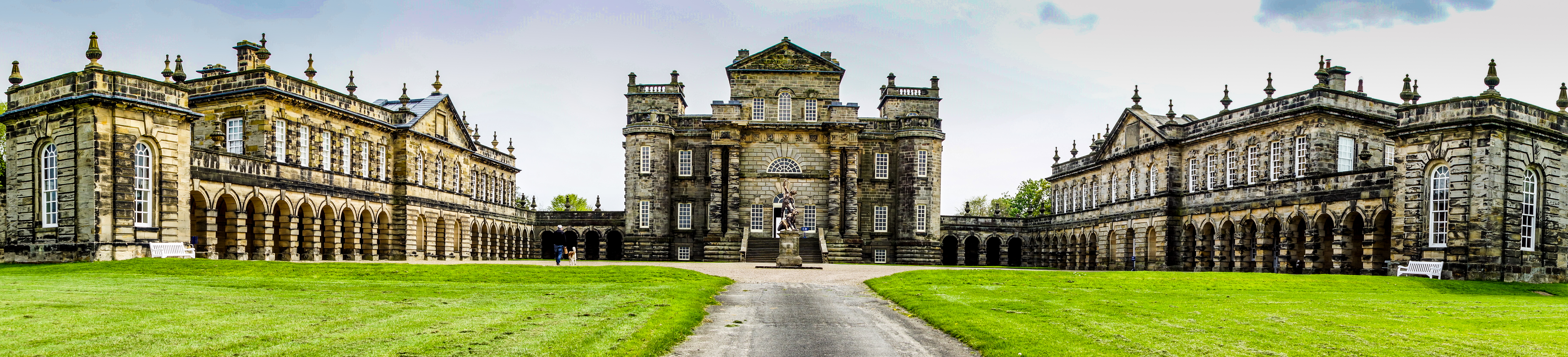 Seaton Delaval Hall Northumberland, North View Of The Whole Building